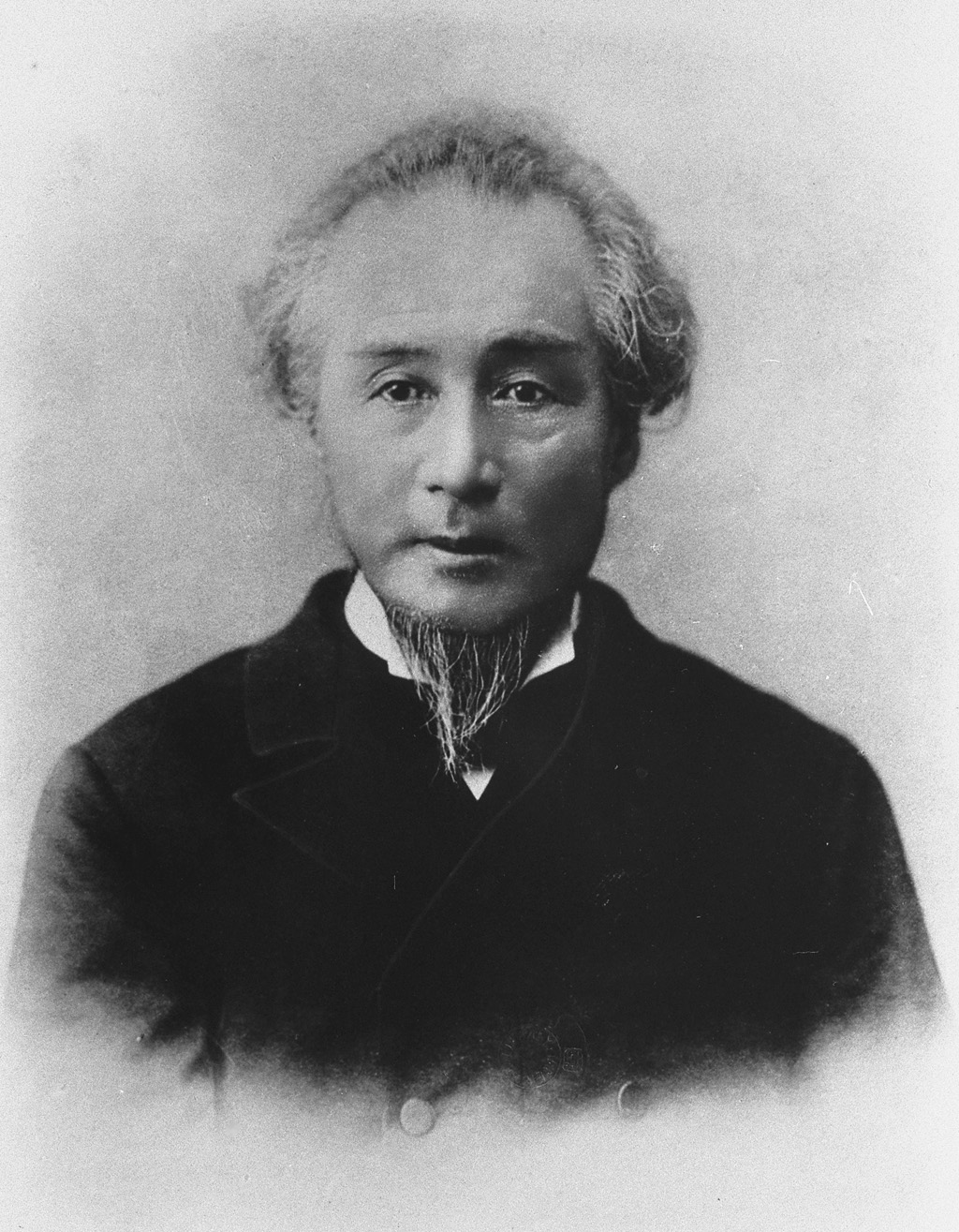 Portrait of Katsu Yasuyoshi (勝安芳, 1823 – 1899)